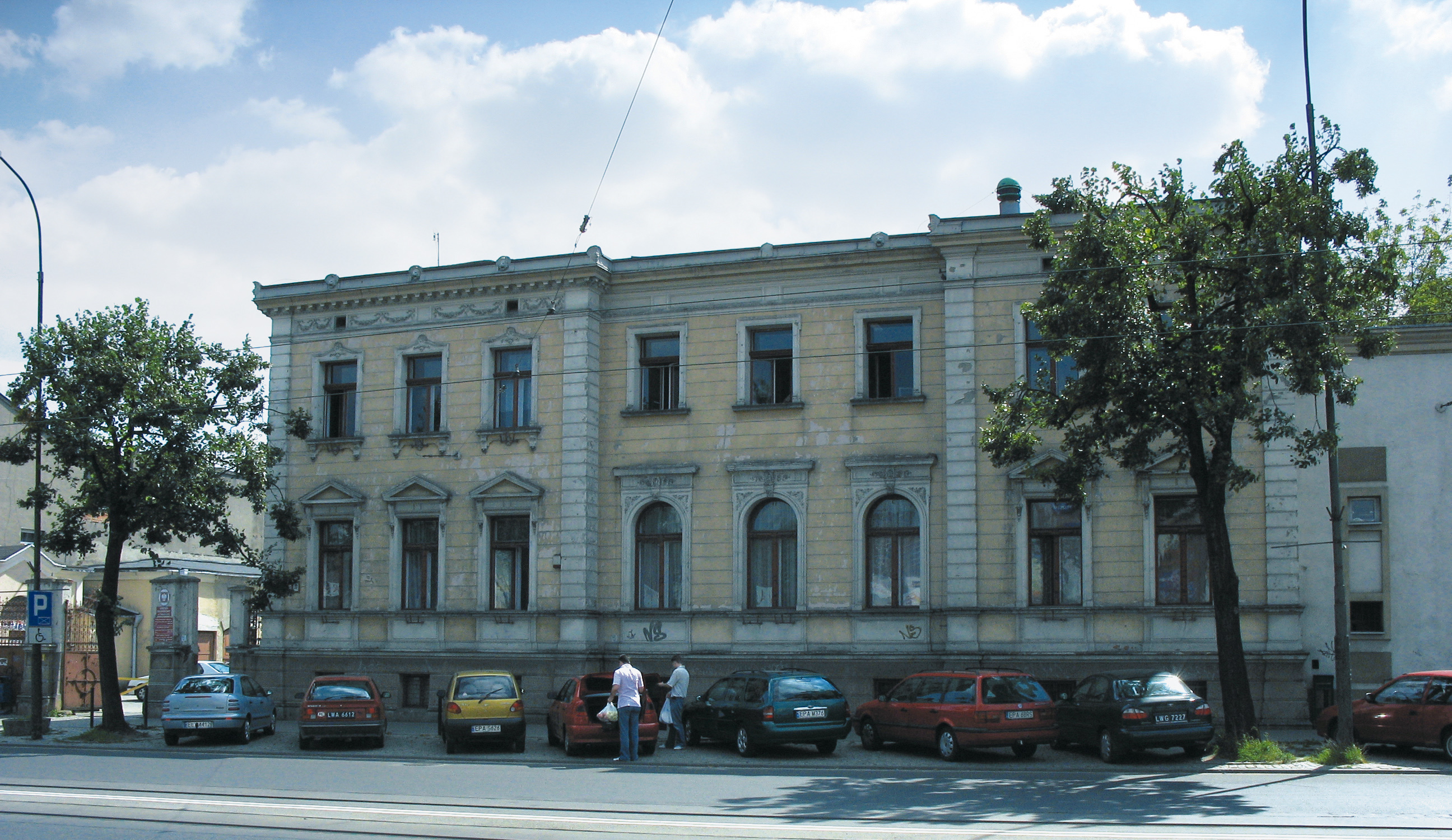 Kindler's Palace in Pabianice